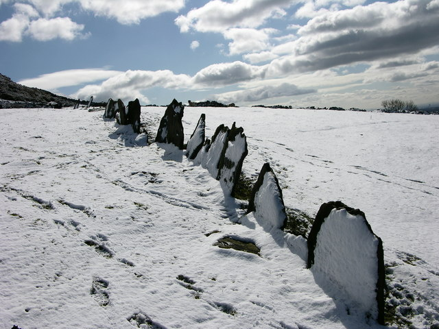 Vacchary Fence in the snow